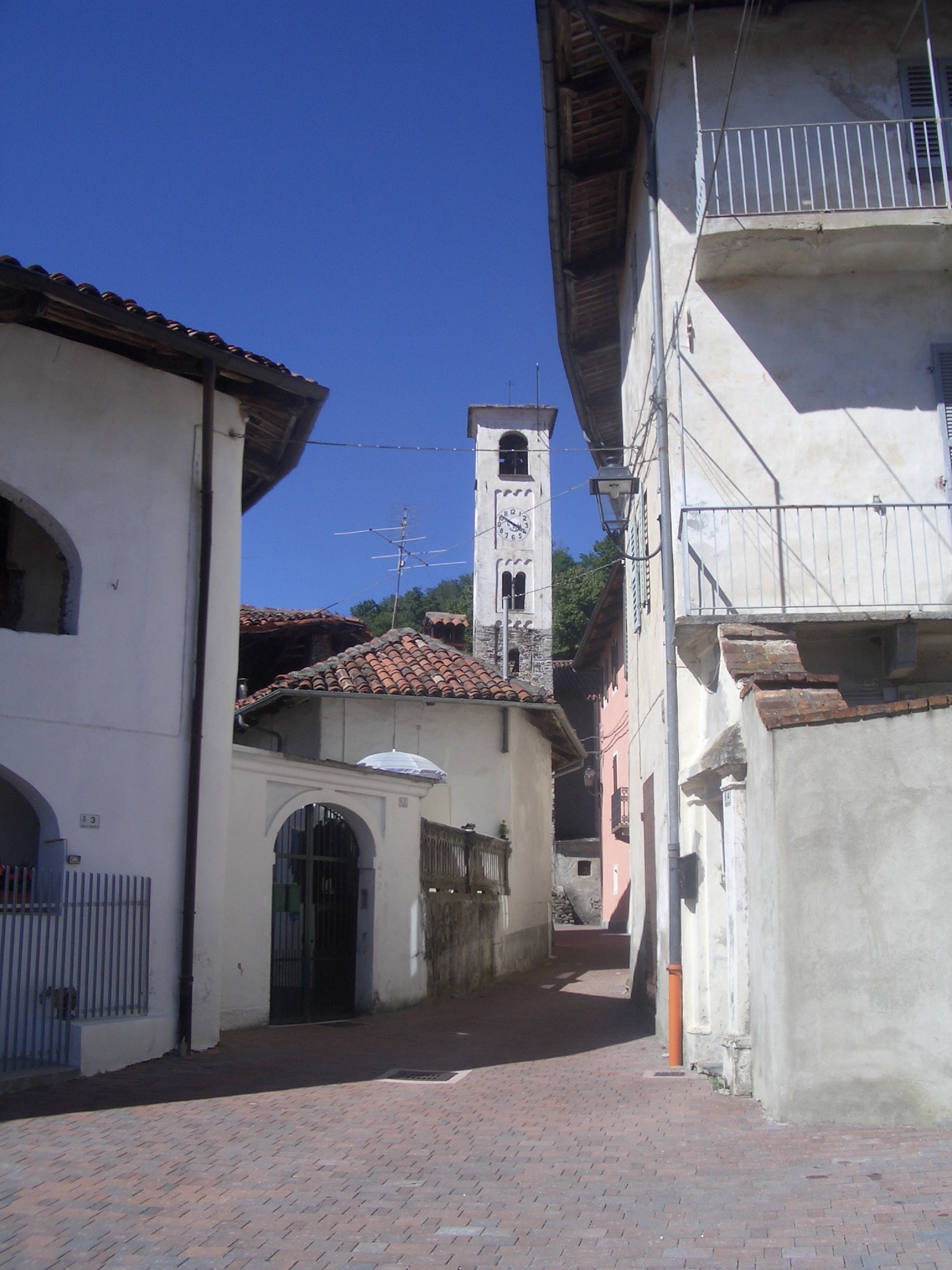 Vistrorio, View of the bell tower. The Parish Church is behind the low house to the center of the photo